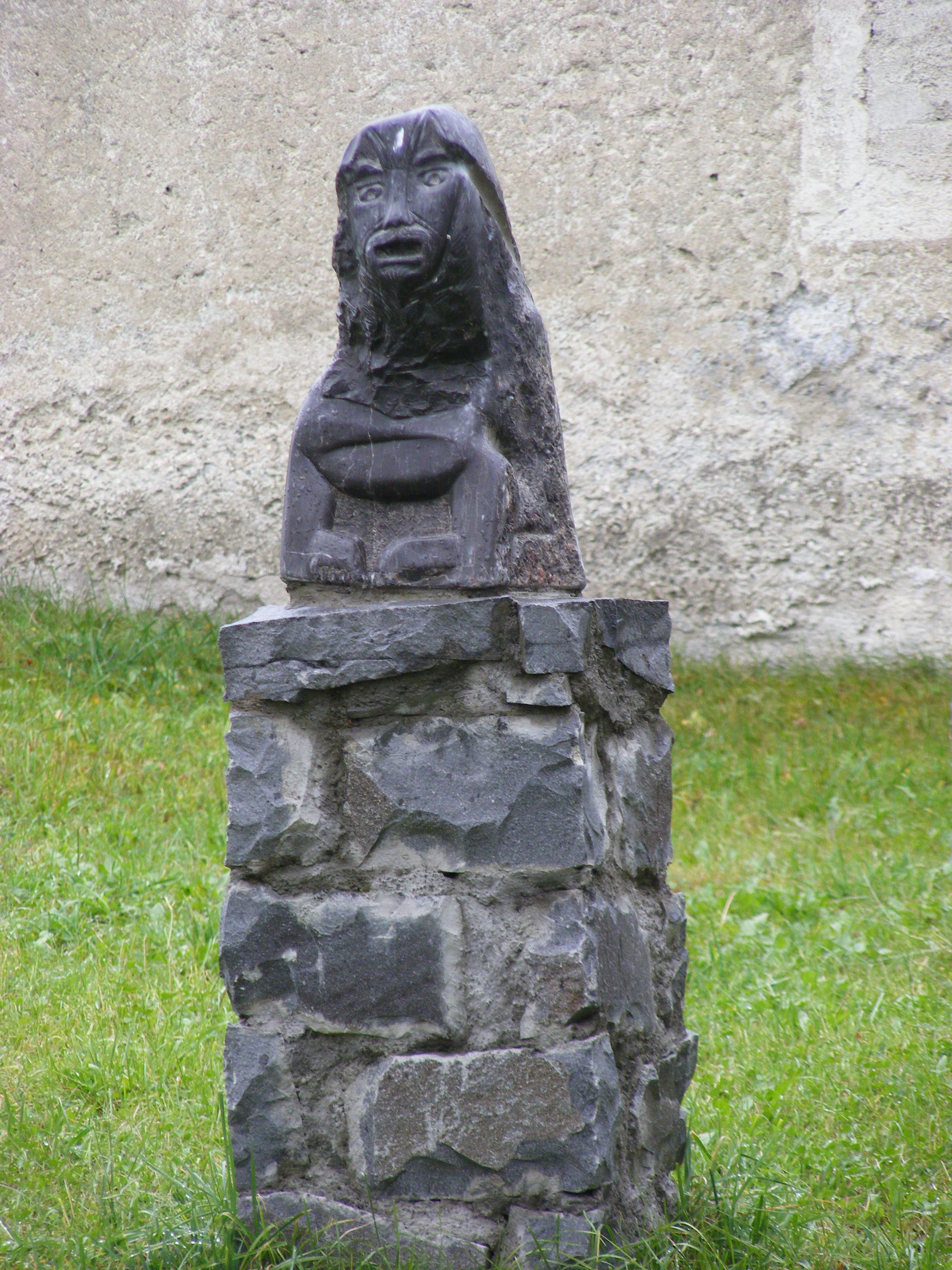 A statue in front of the Saint Catherine church, in Ditró (Ditrău)